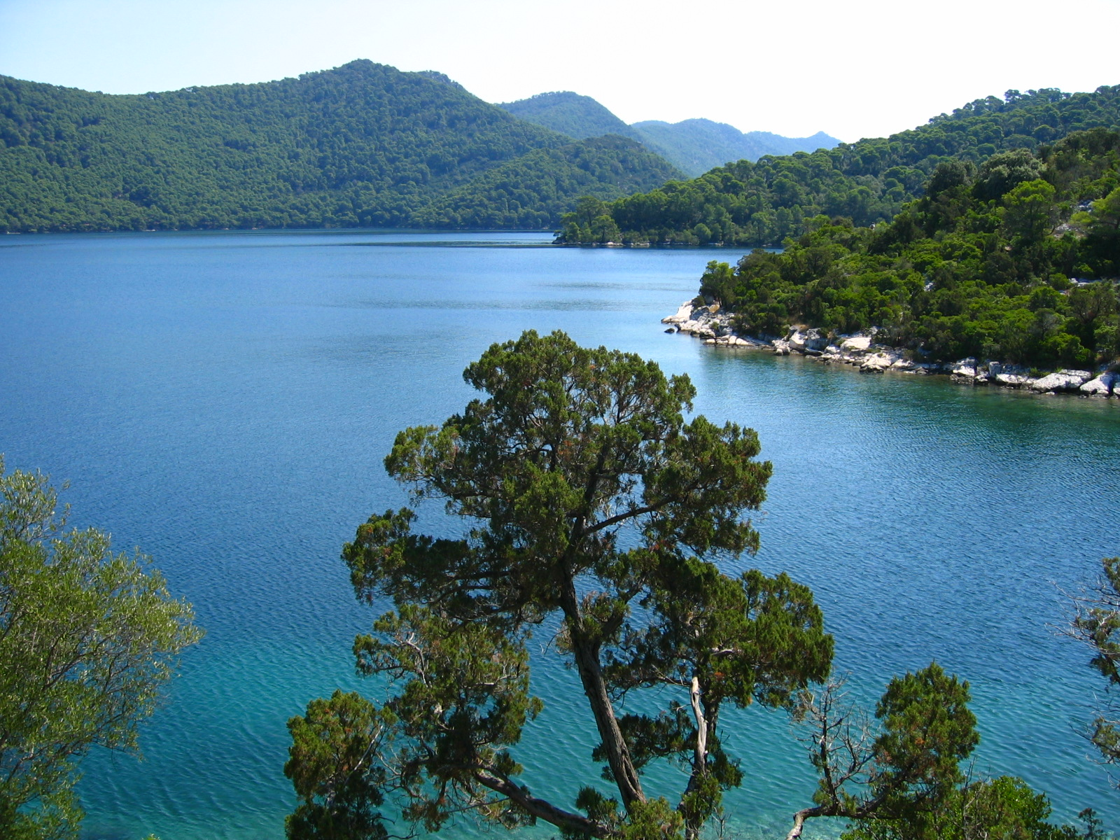 Great Lake, Island of Mljet, Croatia